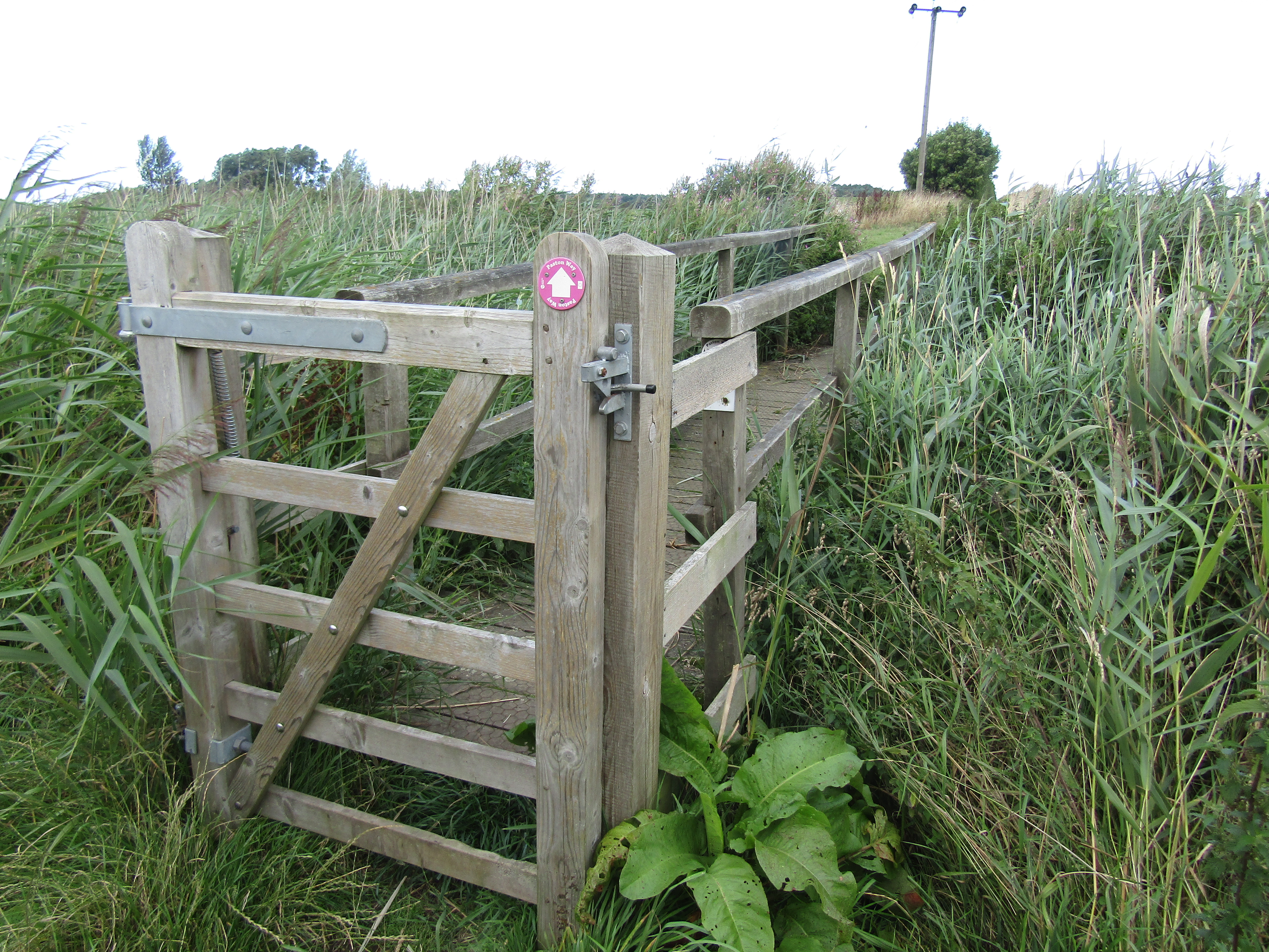 A wooden footbridge which carries the Paston Way footpath over the river Mun located in the parish of Gimingham, Norfolk, United Kingdom.